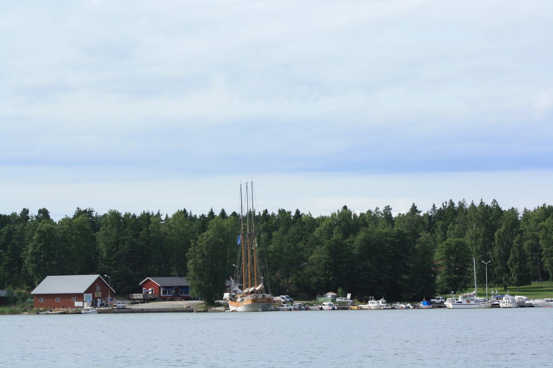 Box village on Degerö island, Raseborg, Finland